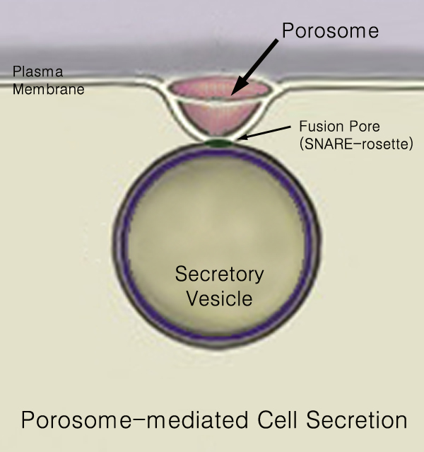 Bhanu P. Jena at Harvard HCURA Distinguished Lecture, November 2014